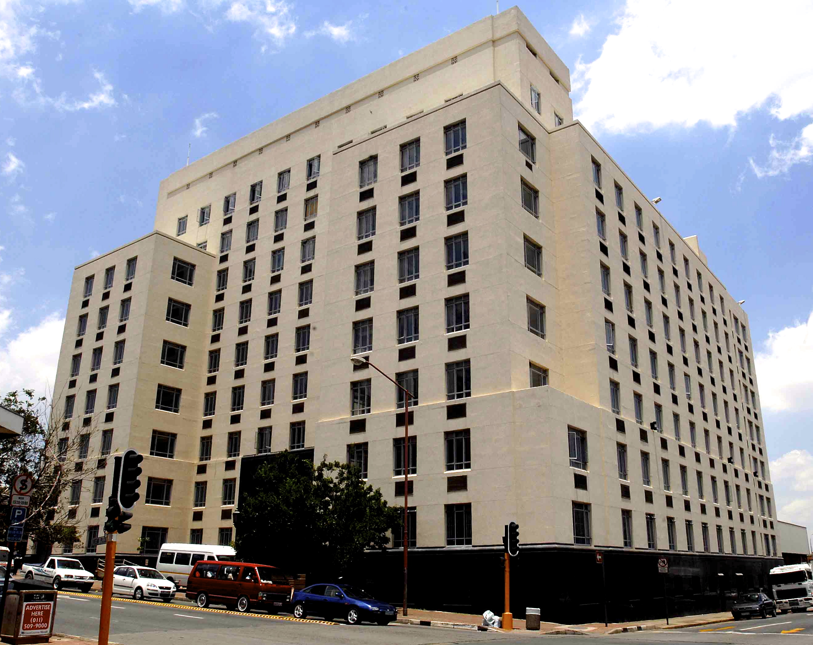 « The Maharishi Invincibility Institute was established in June 2007 in the CBD w: Johannesburg Johannesburg to make tertiary education accessible to all through providing funding for education programmes, to showcase South Africa as a leading innovator in education provision, and support the worldwide breakthrough in Consciousness-Based Education. The Institute is an 'educational hub' that helps deserving students to study for high quality business qualifications which are provided by distance education through its partners which are registered in South Africa or the USA. Learning becomes successful through: • The Transcendental Meditation and TM-Sidhis programmes: these are self-development programmes which develop students holistically, improve learning ability, improve behavior and lead to greater skill in ; • financial support in the way of bursaries; • computer and Internet access; • lecture rooms equipped with audiovisual equipment; • library and canteen.»